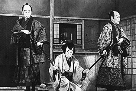 From left: Raizō Ichikawa VIII (1931–69) as Senzaki Yagorō, Jukai Ichikawa III as Hayano Kanpei, and Chusha Ichikawa VIII as Fuwa Kazuemon, in Kana-dehon Chūshingura, Act VI